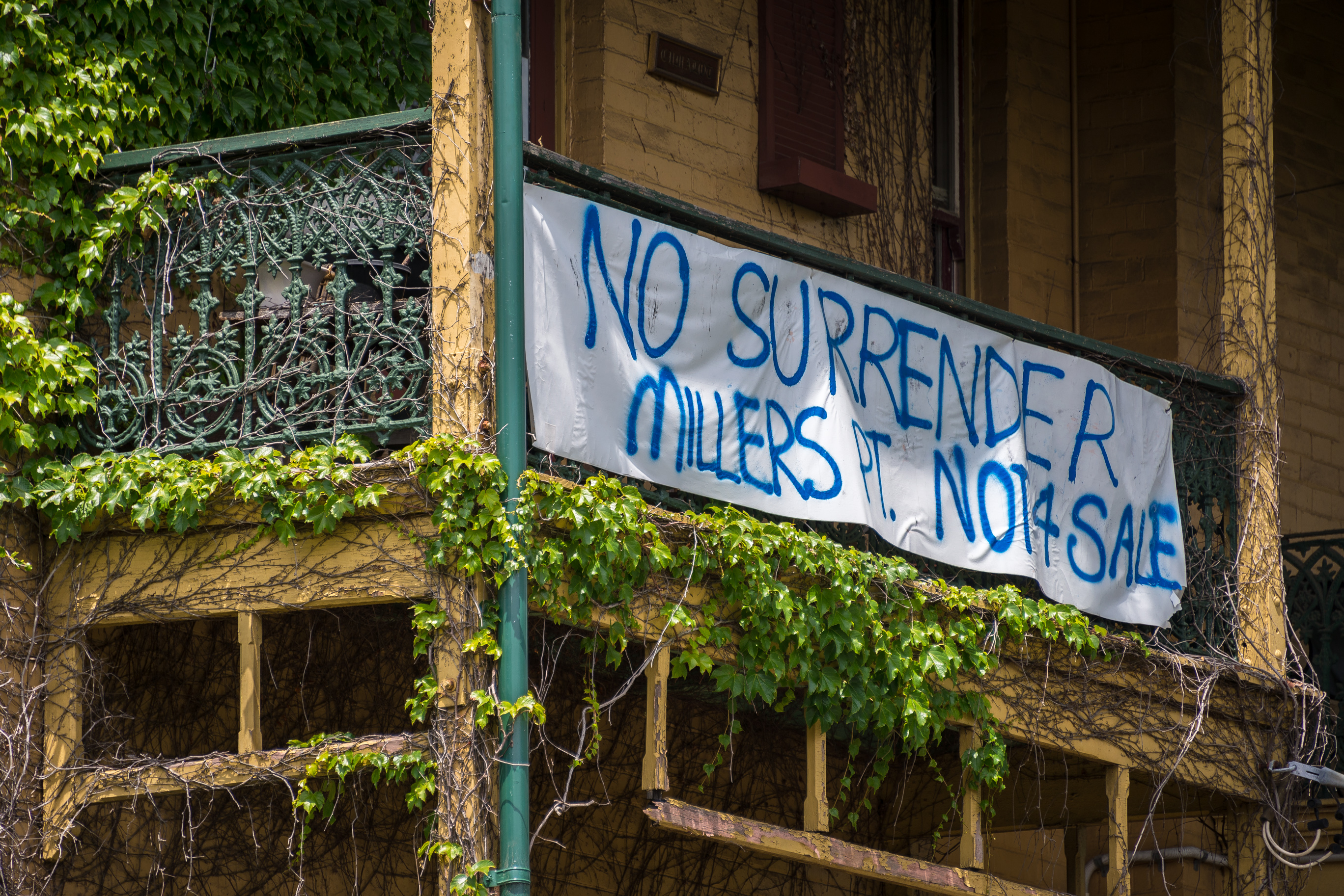 Protestor signage against forced evictions in Miller's Point